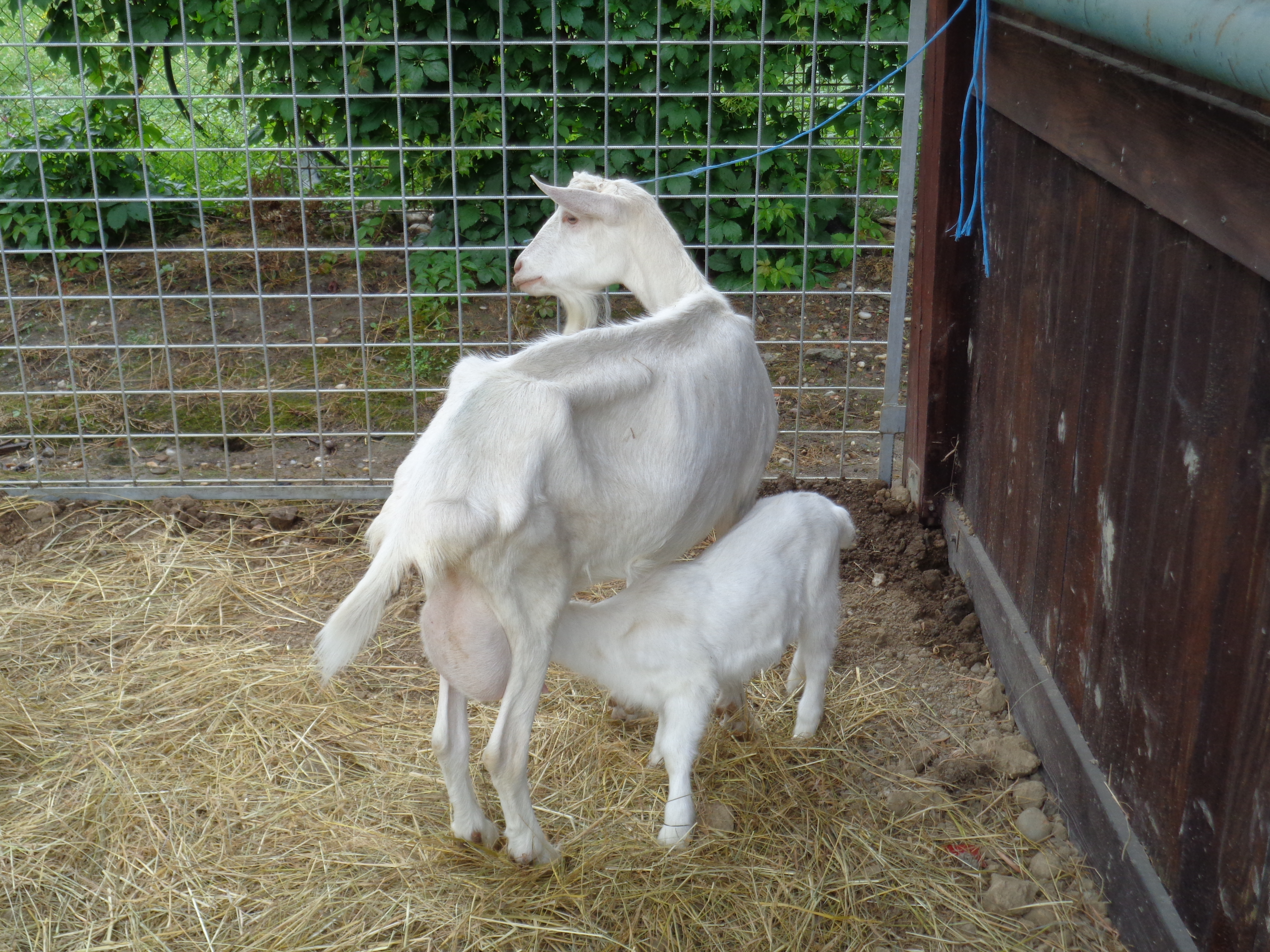 Saanen goats, exhibited at 2016 MESAP Trade Fair in Nedelišće, Medjimurje County, northern Croatia